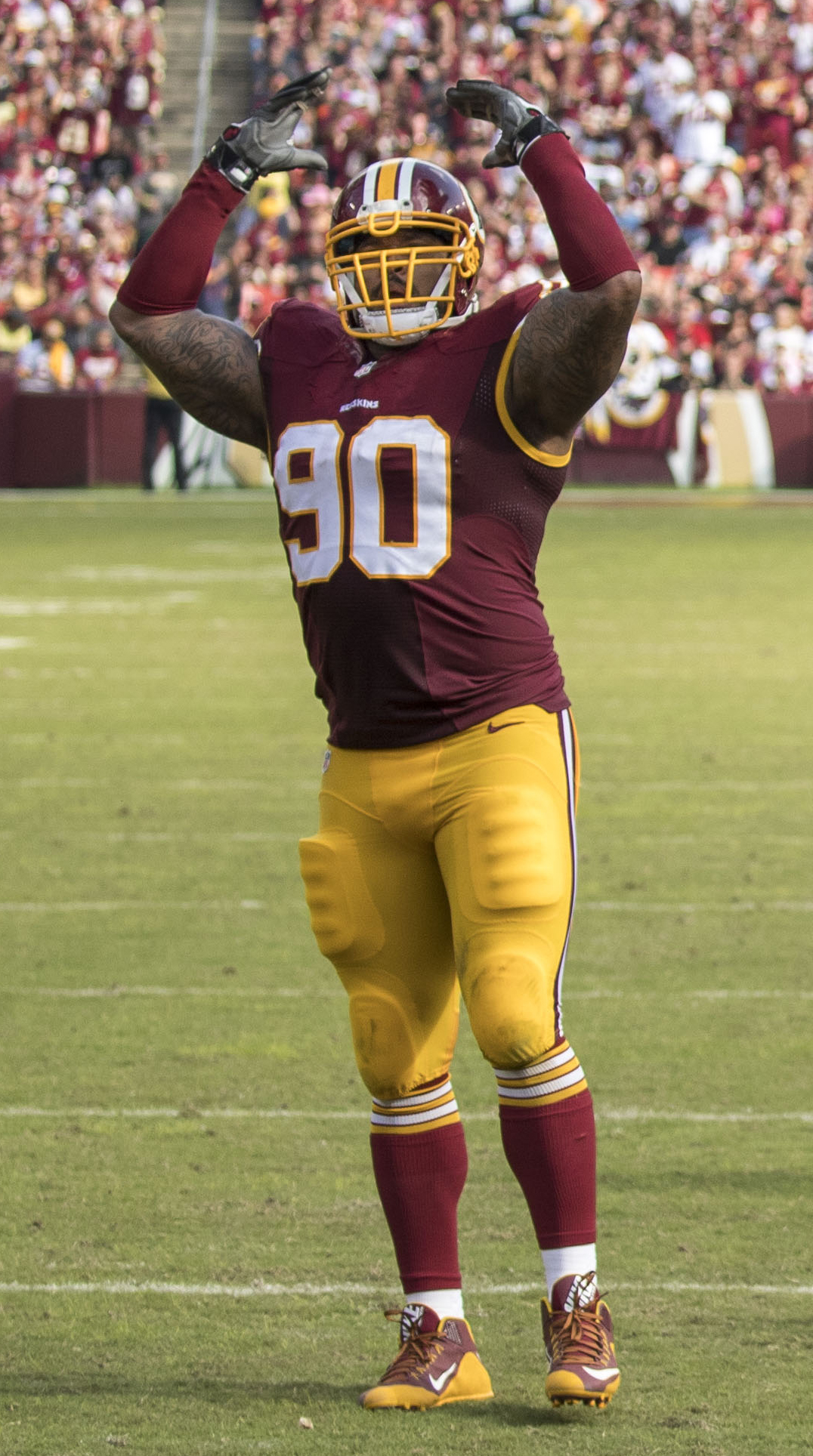 Photo of Washington Redskins defensive lineman Ziggy Hood